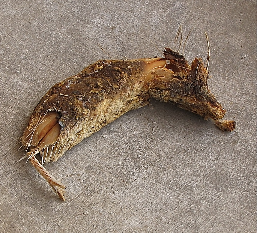 Kèthiakh/kethiakh, a salt-cured dried ocean fish added to flavor popular traditional Senegalese and West African sauces. Shown here as sold in the market for one typical family communal platter recipe. Not a large fish, in this cured manner used expressly for flavoring; the typical size is roughly 10-15 cm in length on average, before separating the very fine bones to be discarded. Written forms of the Wolof name vary: kèthiakh uses the French alphabet, while keccax (as per Senegalese official alphabet), names will vary between local languages.